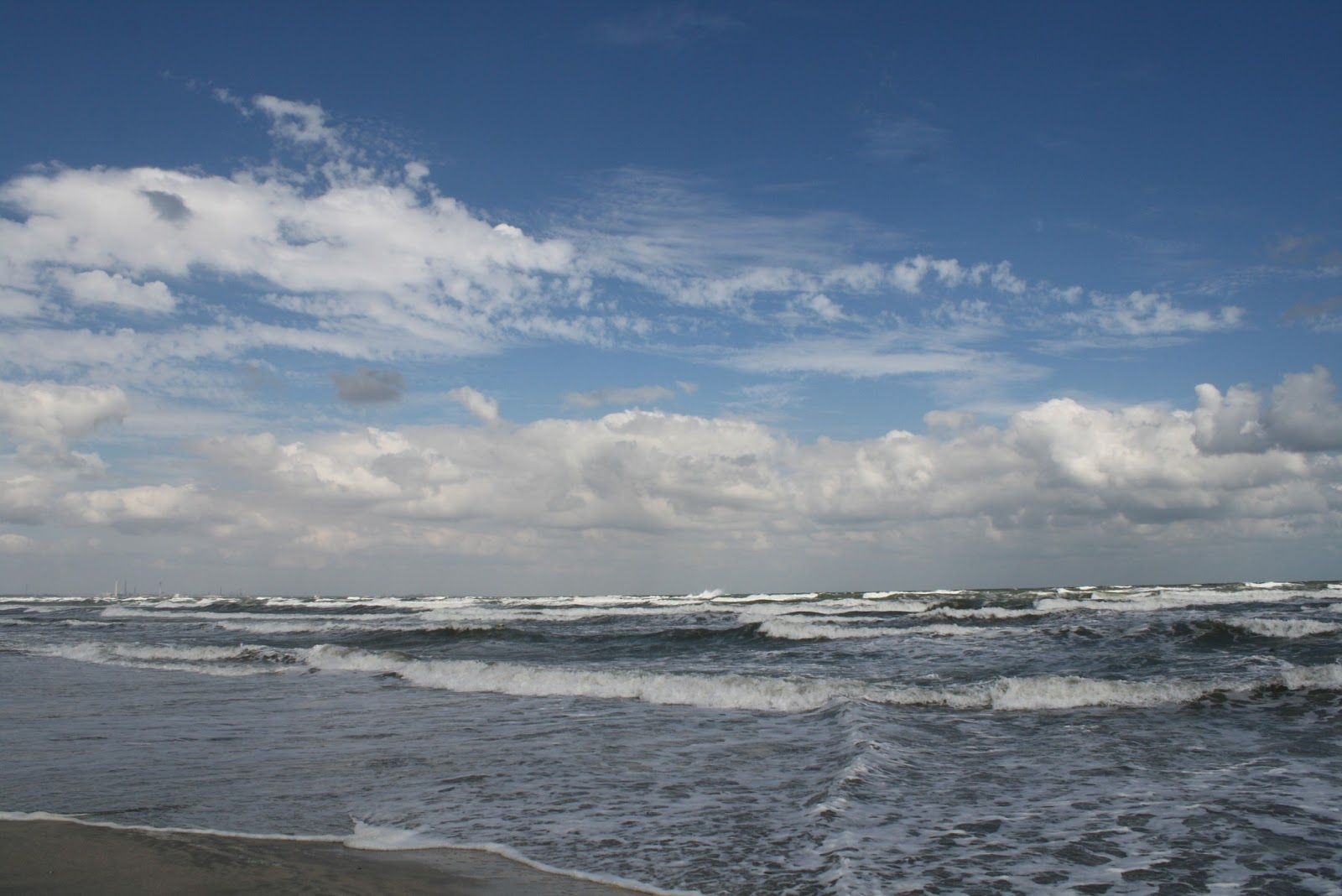 The Black Sea near Constanţa, Romania